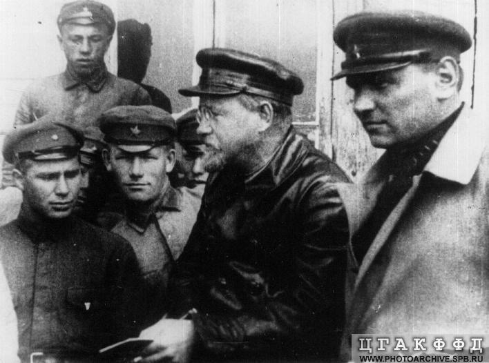 The representative of the USSR Revolutionary Military Council Ivan Fedko (1st right) and Chairman of the Government Commission on the survey of the Far East Aleksandr Shotman (2nd from right), talking to border guards in Petropavlovsk-Kamchatsky (1929).